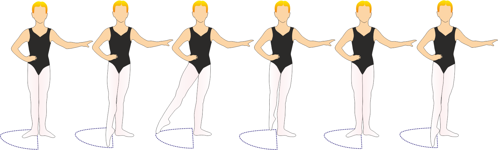 Ballet barre exercises: rond de jambe par terre